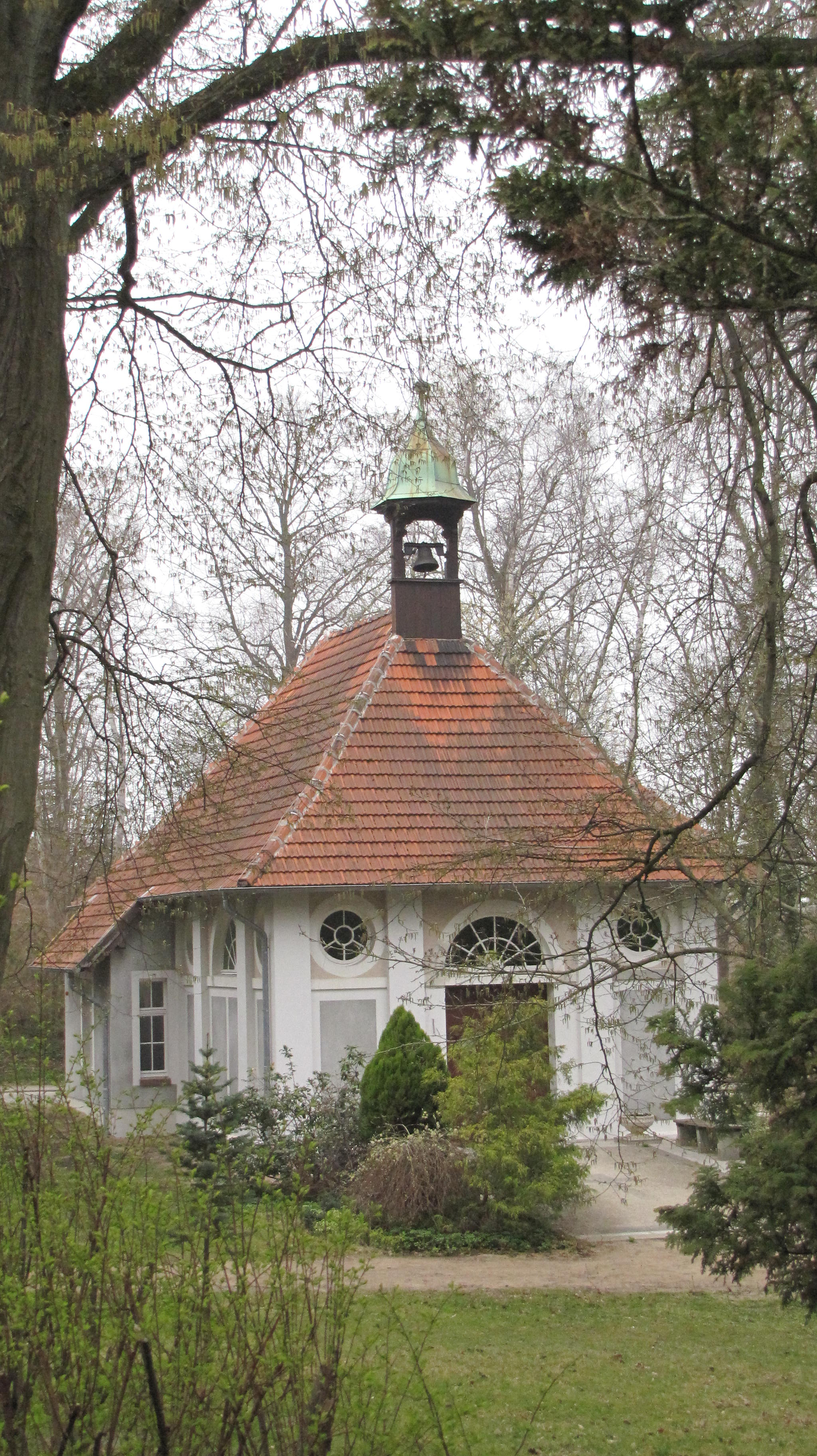 Sachsenberg (Schwerin)